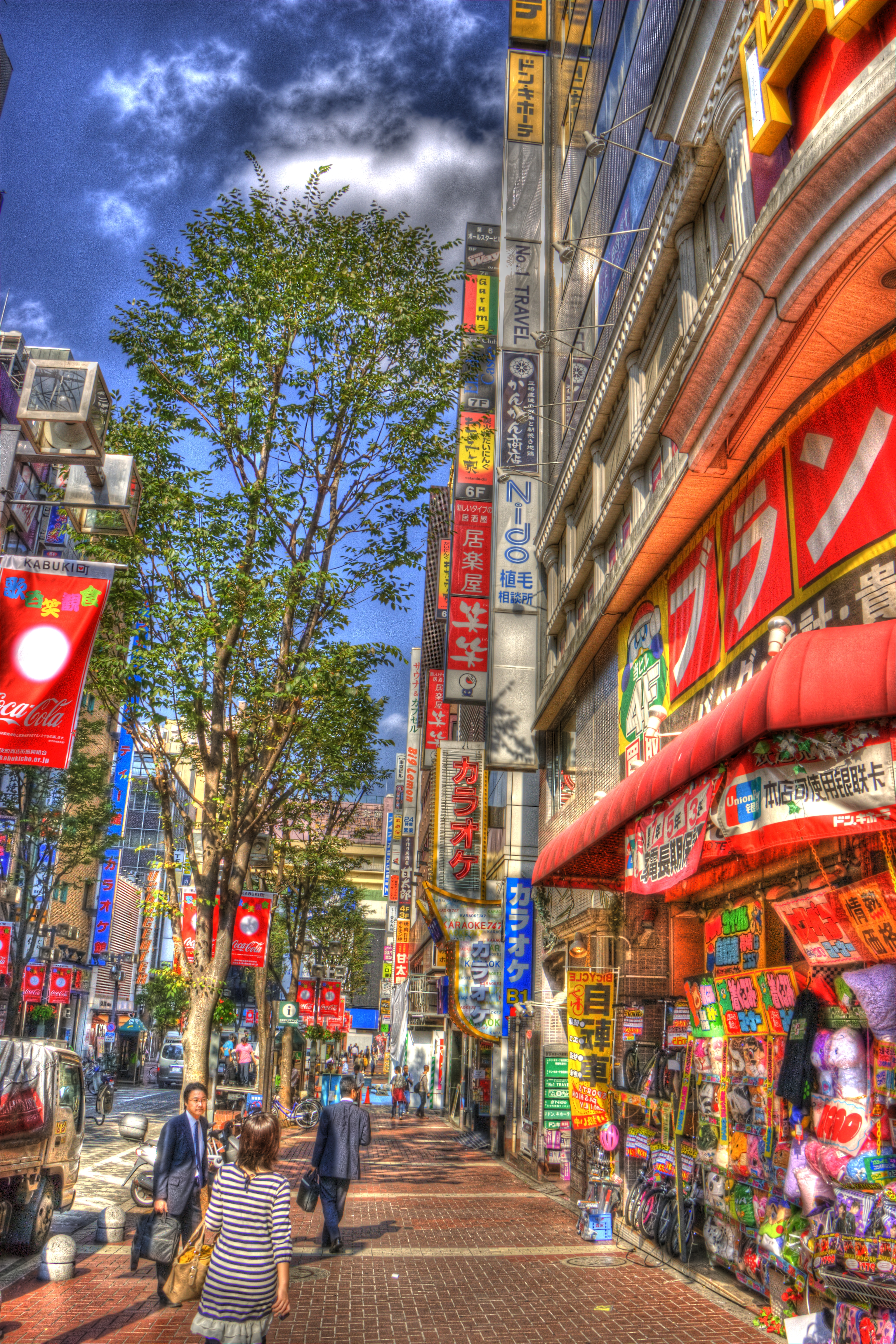 city life